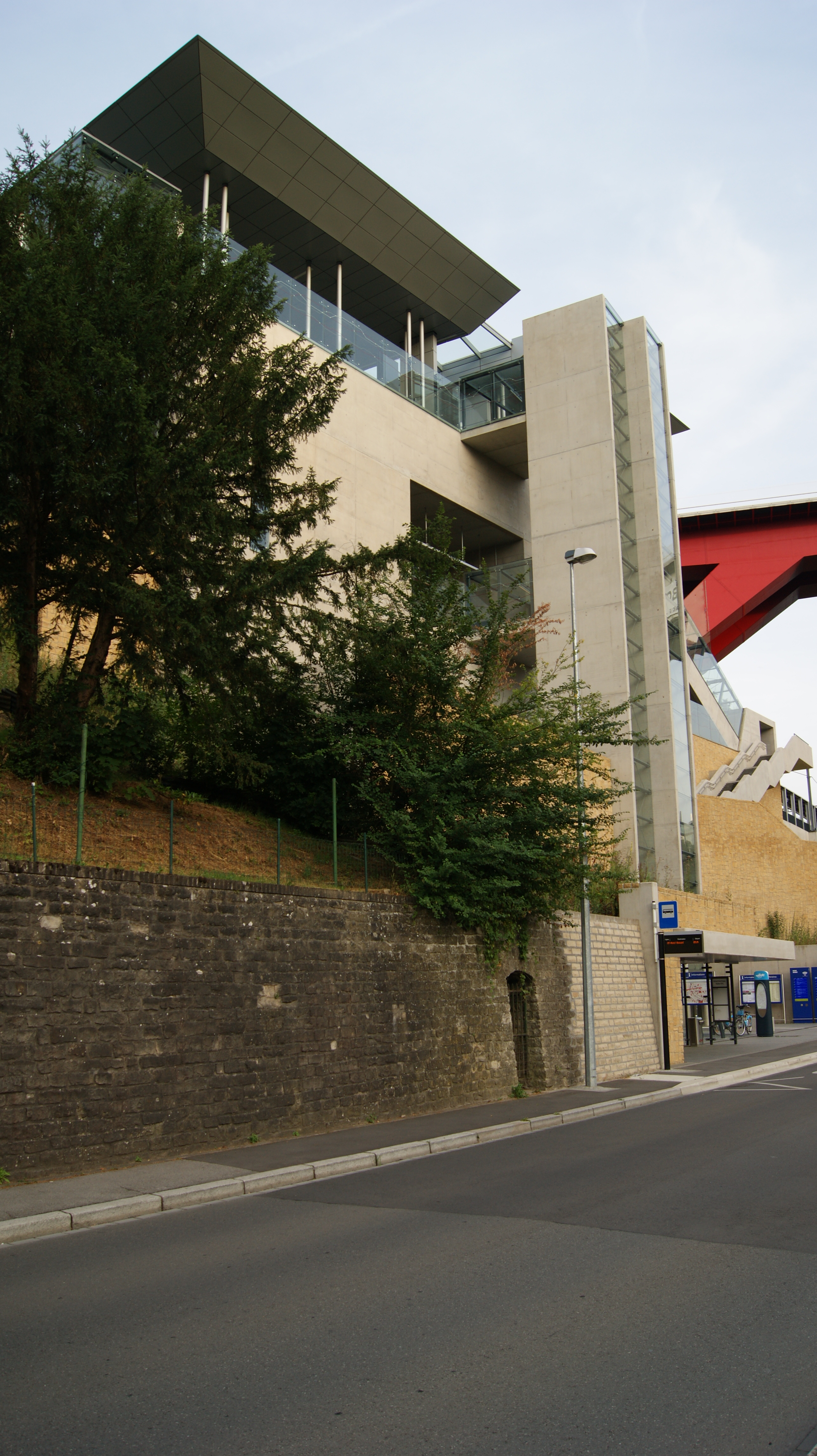 The funicular Pfaffenthal-Kirchberg is a funicular railway operating in Luxembourg, which was opened on 10 December 2017.